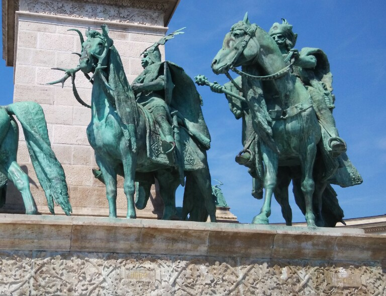 Side view of two of the seven statues of the Seven chieftains of the Magyars. Statues placed in Budapest (Hungary), on the 'Hosok tere' square, also know as the 'Heroes' square' Left: Huba Right: Tas